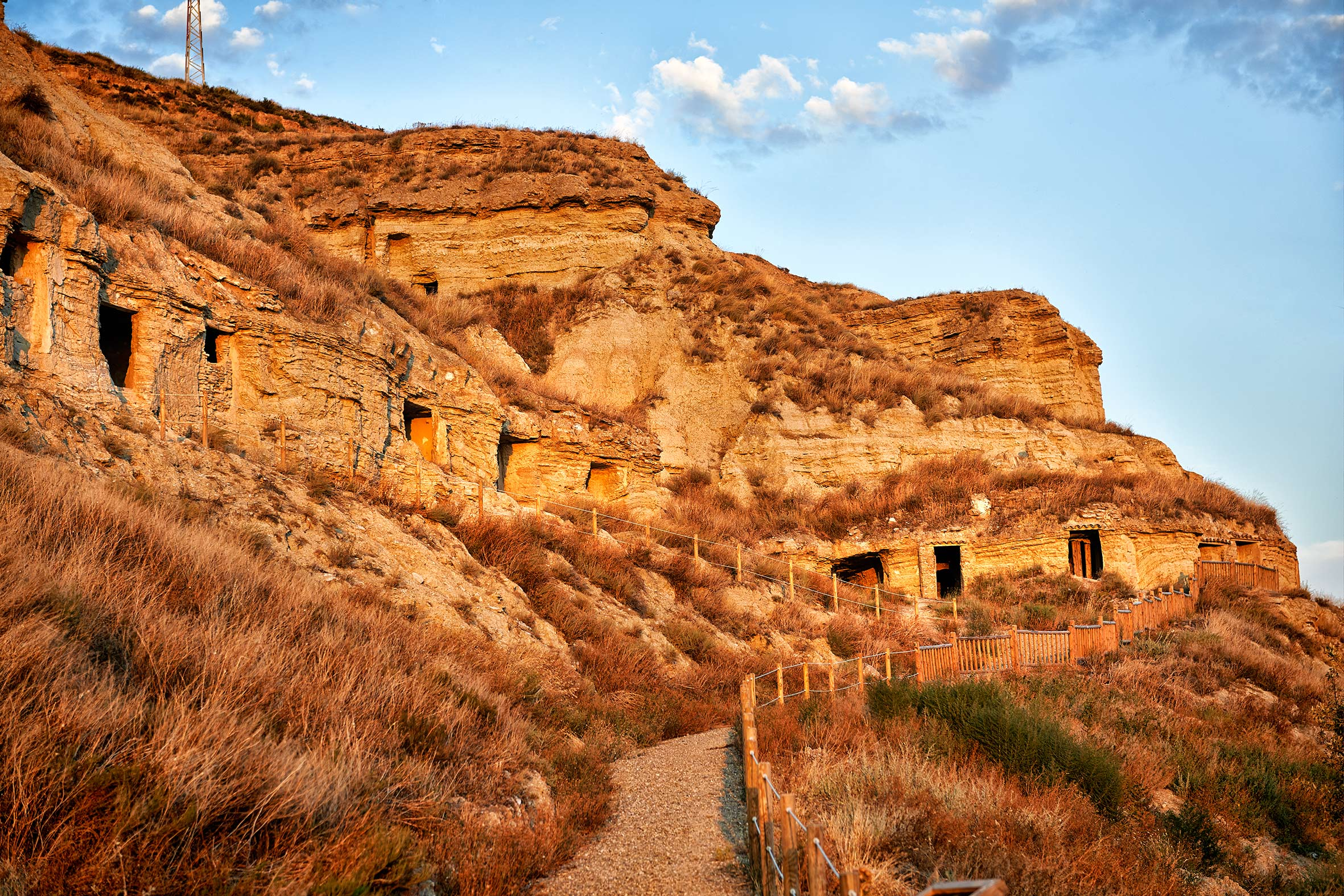 Old Caves in Arguedas (Navarra, Spain)